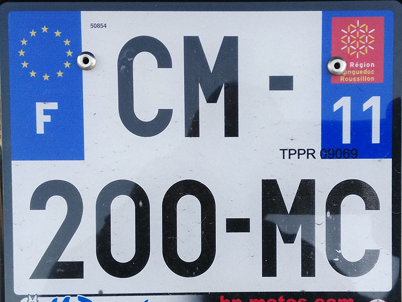 French motorcycle license plate